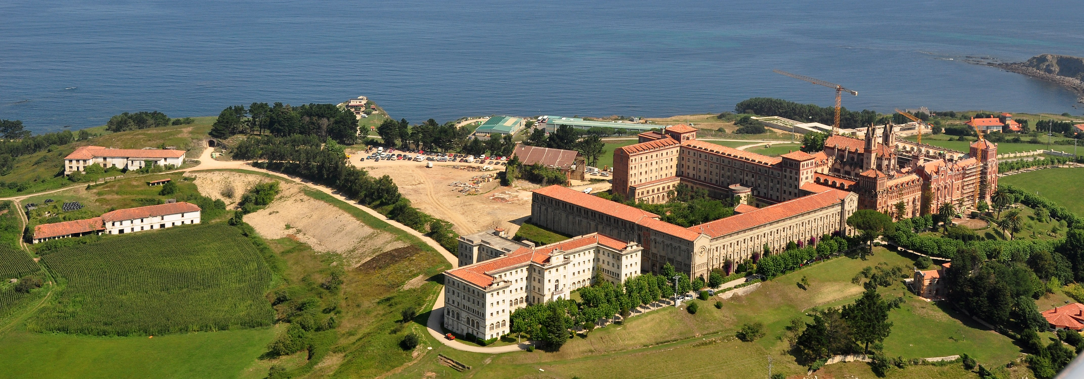 Aerial view of the International Centre for Higher Education in Spanish of Camillas (Cantabria, Spain).